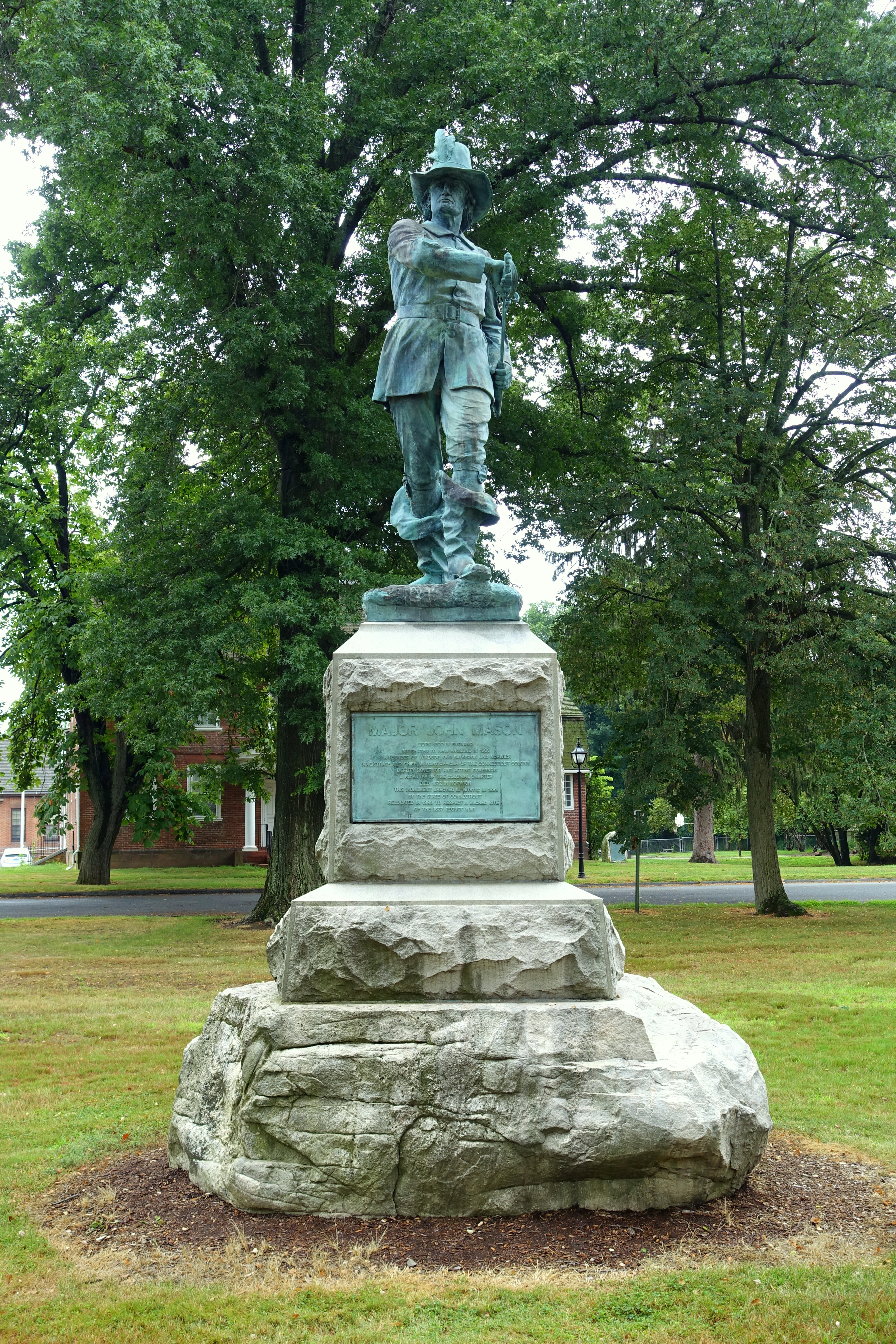 Major John Mason by James C. G. Hamilton, dedicated 1889 - Palisado Green - Windsor, Connecticut, USA.